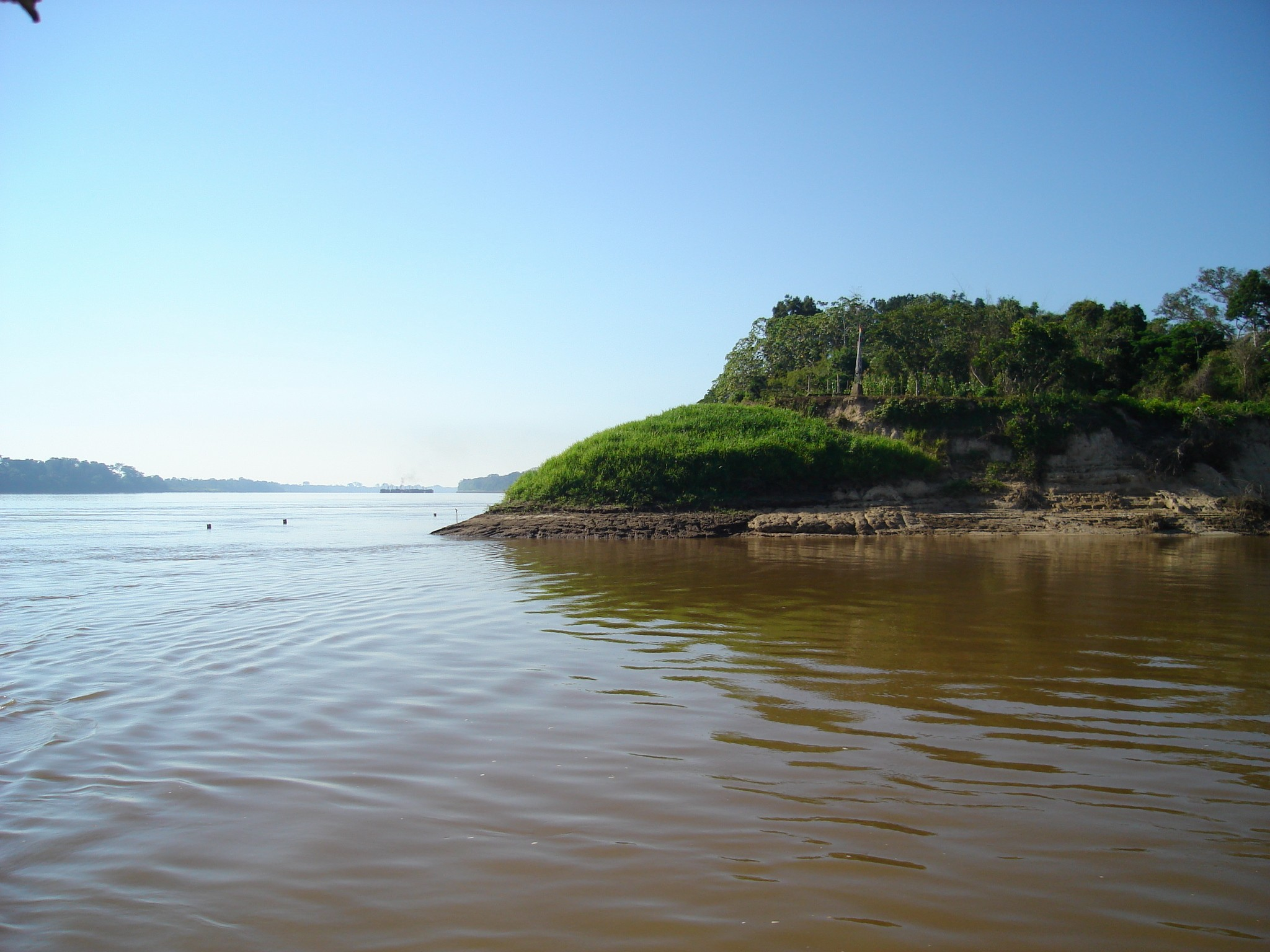 On the left Madeira River, on the right Abunã River, in the middle the northernmost point of Bolivia (see the flag), in the border Brazil-Bolivia.